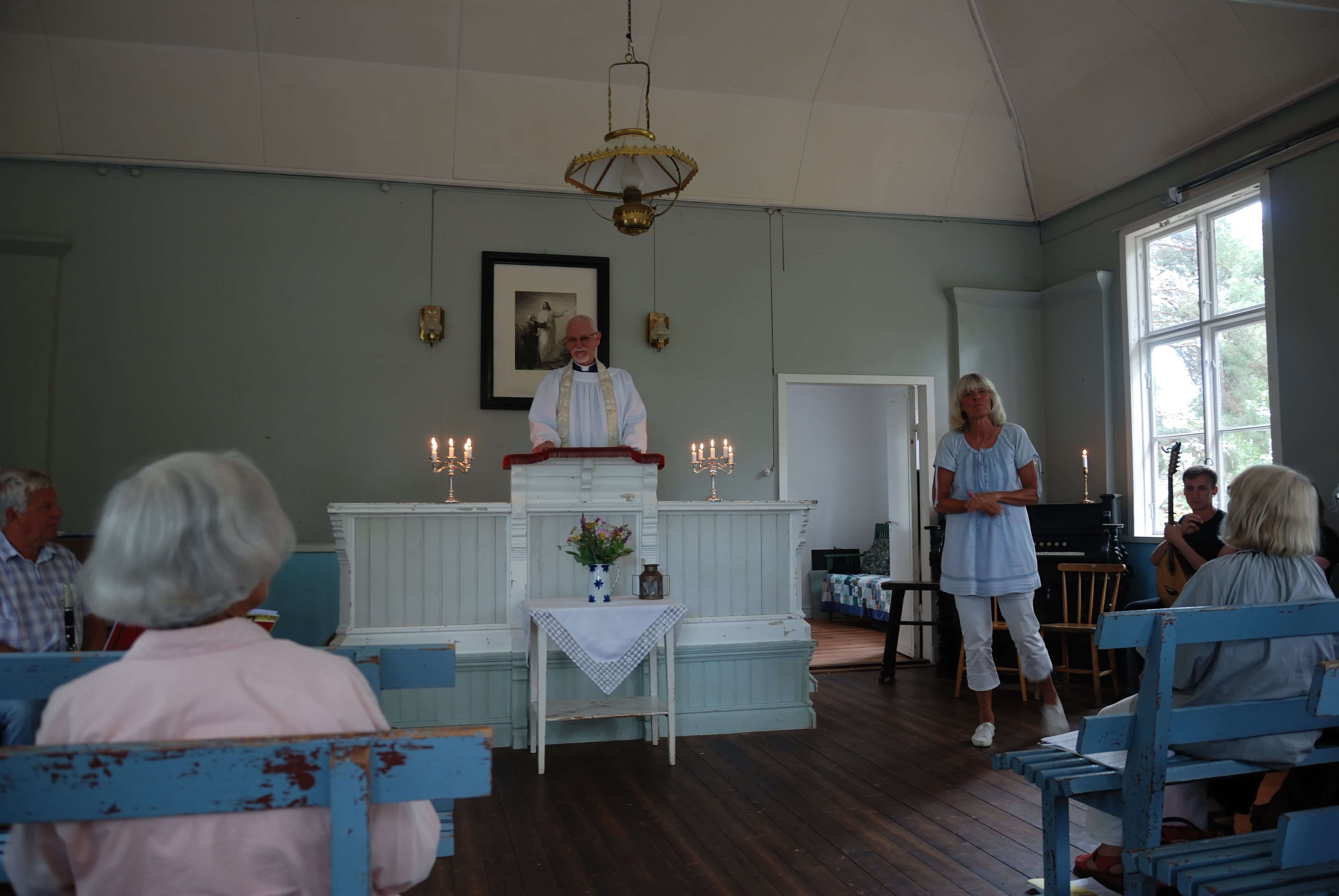 Ingmarsö missionshus